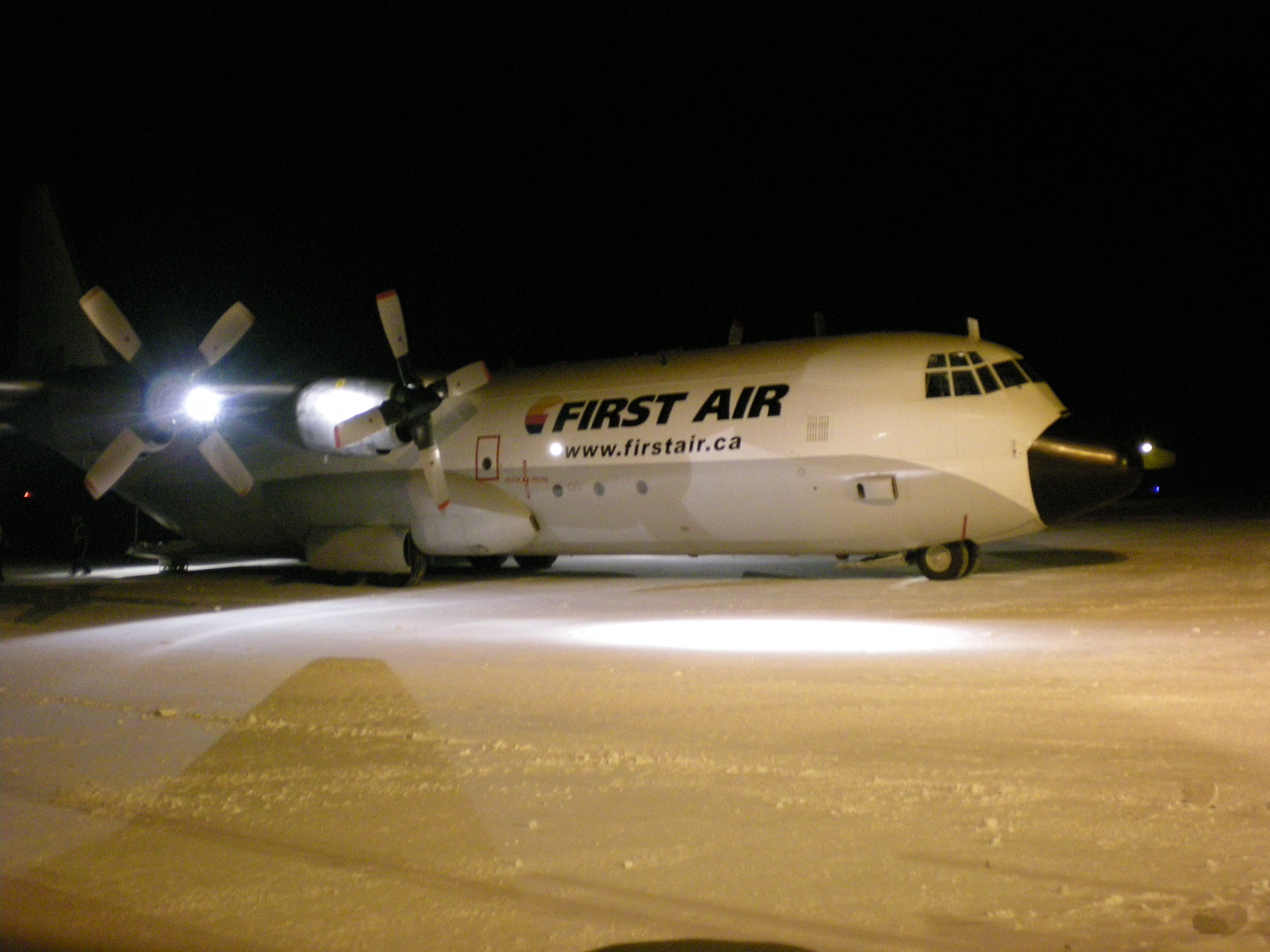 First Air C-130 Hercules C-GHPW at Cambridge Bay Airport